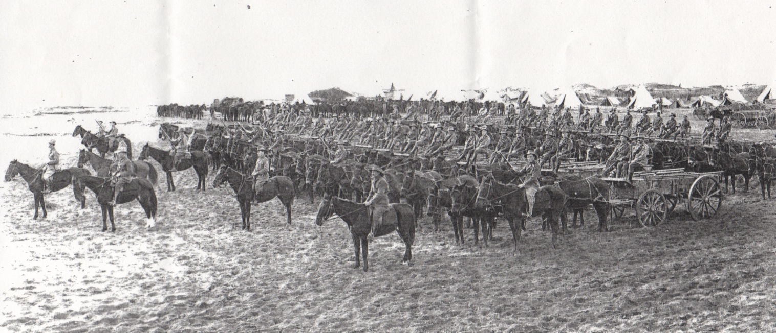 Ottoman Empire: Lebanon, Tripoli. 37th Coy Australian Army Service Corps Australian Mounted Division Train at Tripoli.